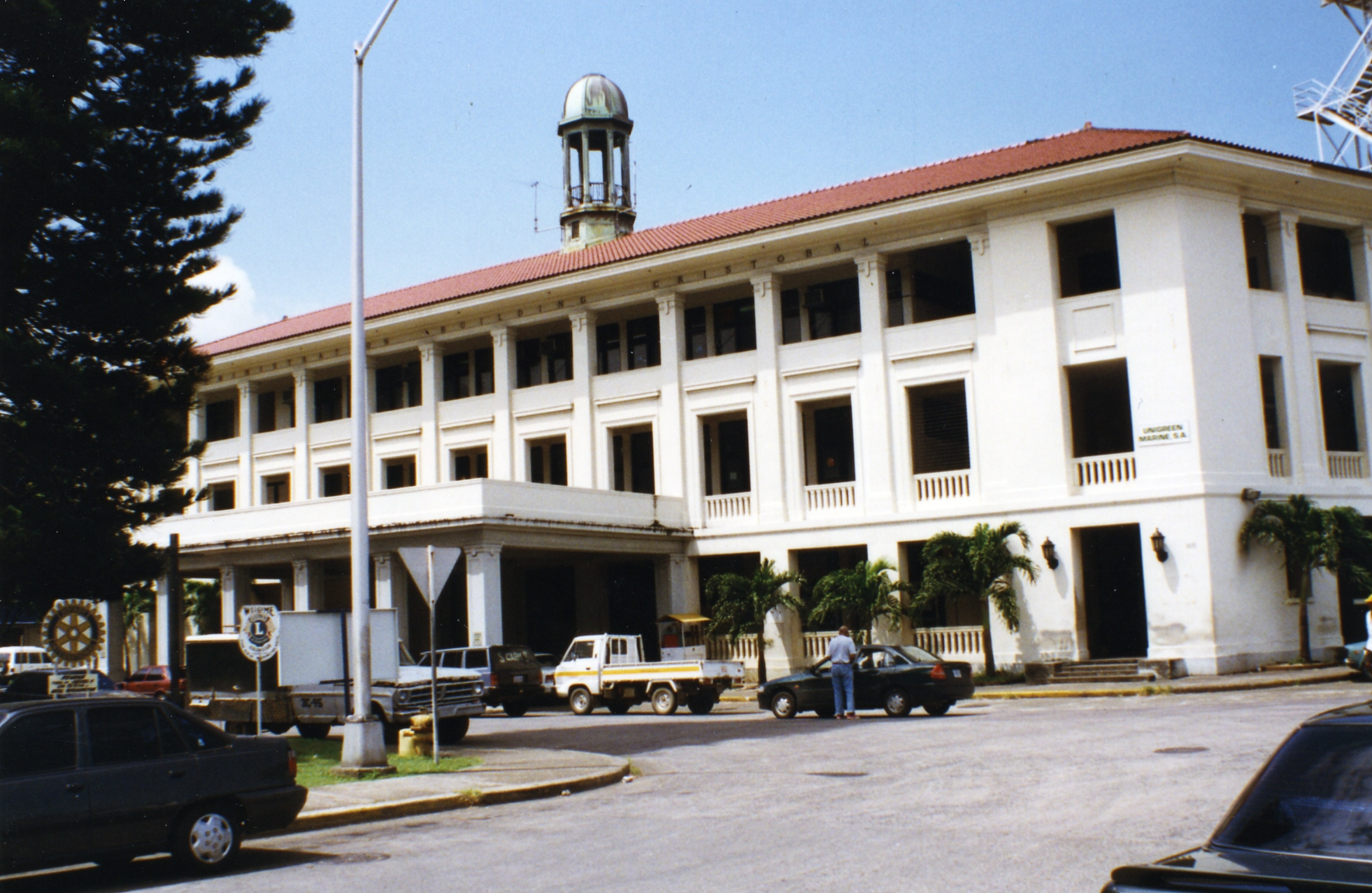 This view of 1105 Terminal Street in Cristobal was taken in July 1997 from Roosevelt Avenue. The building was commonly known as the Administration Building and housed the Panama Canal Company and Canal Zone Government's offices in Cristobal, including one of two courthouses in the Canal Zone. The Admin. Bldg. is in the heart of what was known as Steamship Row in "Old Cristobal." Its neighbors included the offices of various shipping lines and steamship agencies, the Cristobal Port terminal, the Cables (telephone) office, the American Bible Society, a cafeteria, a commissary and a train station.